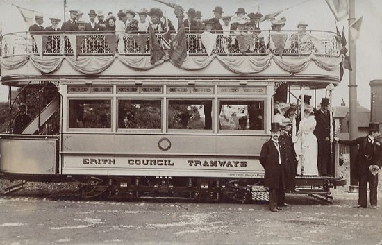 Erith Council Tram, 1905